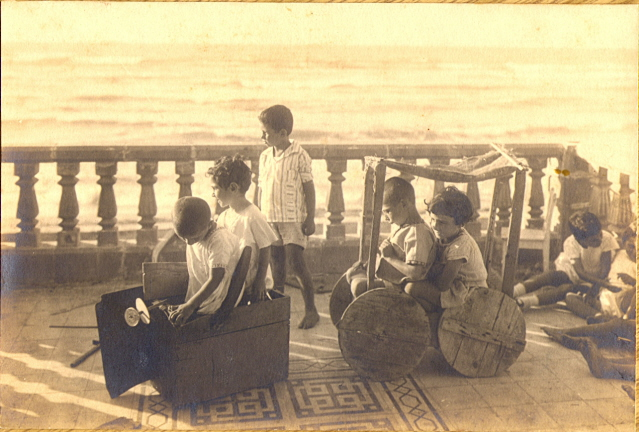 Kids at Kindergarden, Education in Israel